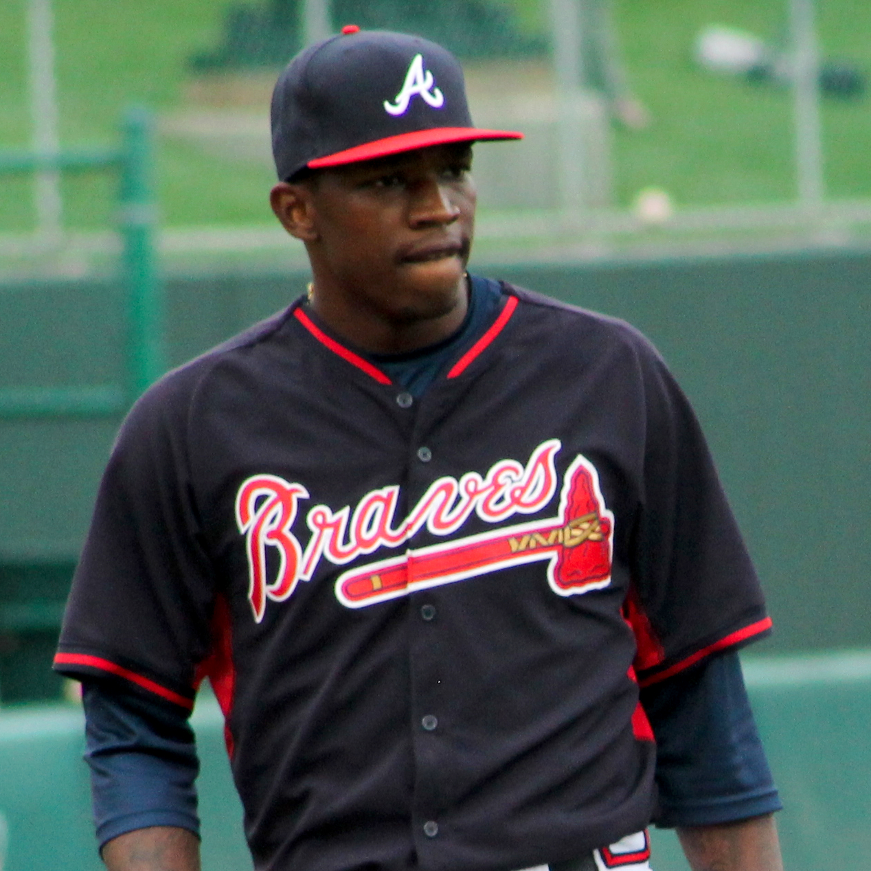 Professional baseball player Tyrell Jenkins at spring training in 2015.